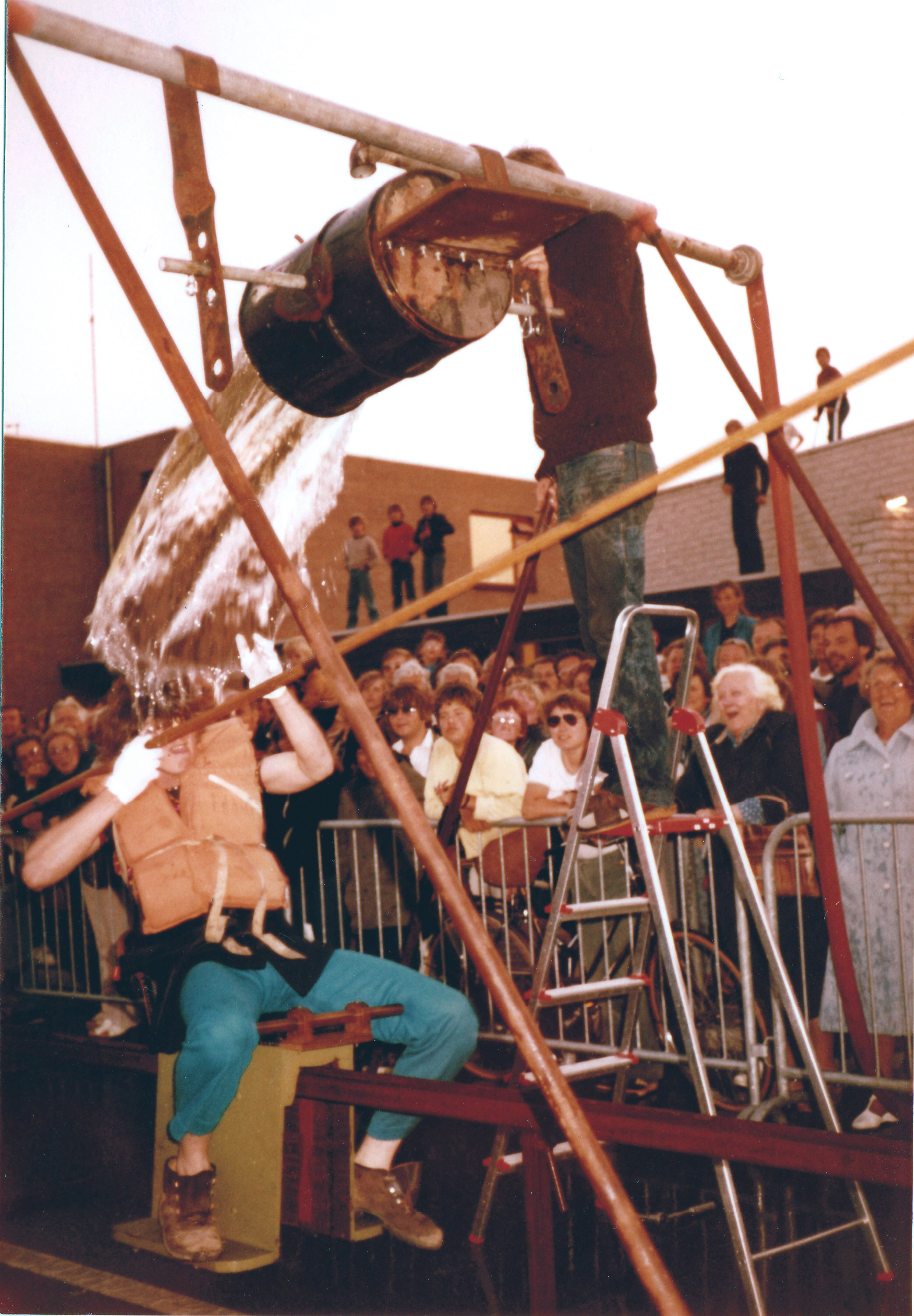 Tobbesteken or Tonnetje steken ("bucket stoking"), Texel 1981. Sitting on a "horse" on rails you have to put a "lance" in a hole beneath the bucket otherwise get wet. Variant of medieval Ringridning with real horse.